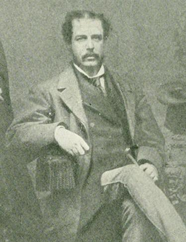 Frank (Francis) W. J. Hurst, New York shipping magnate